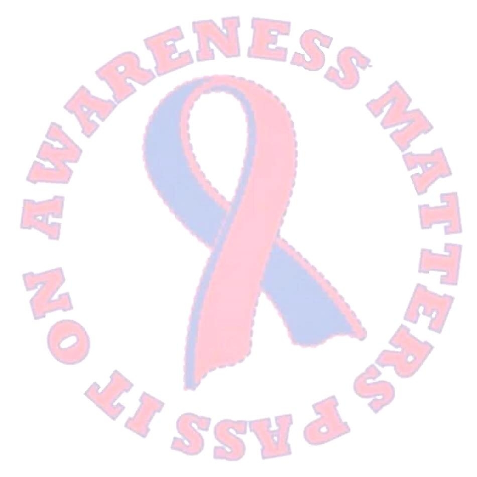 Official PAiL Campaign Ribbon